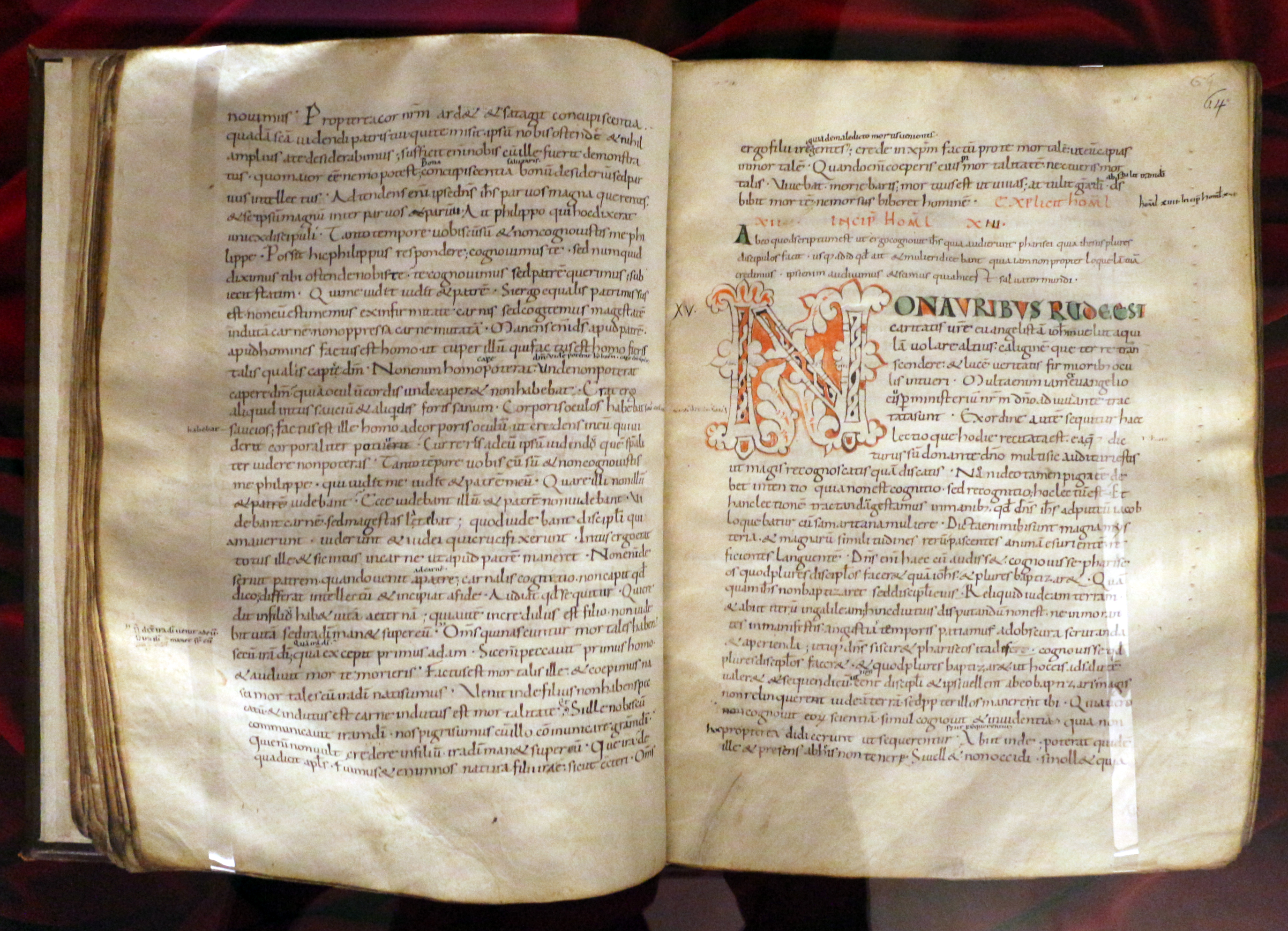 Biblioteca Medicea Laurenziana manuscripts